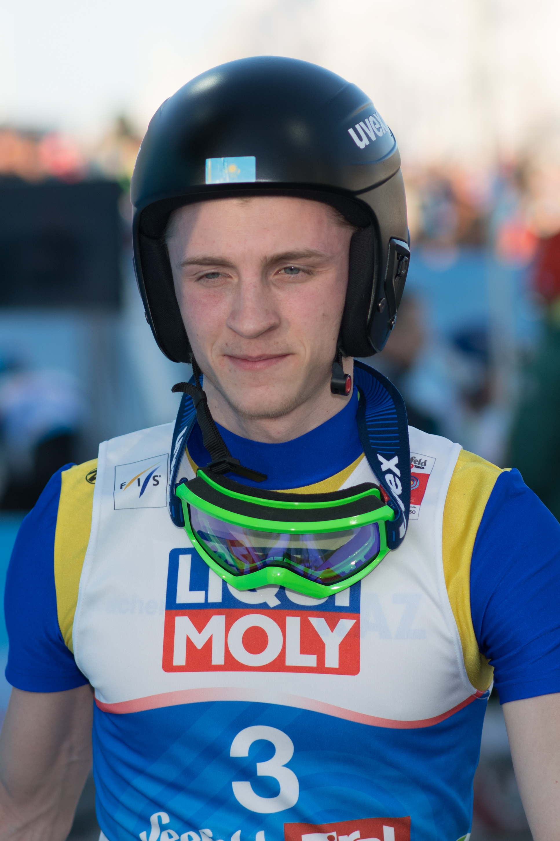 Seefeld, February 28, 2019: FIS Nordic World Ski Championships, Ski Jumping Qualification.